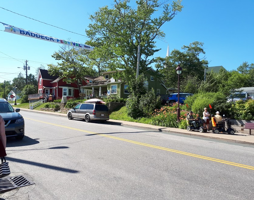 Baddeck festival